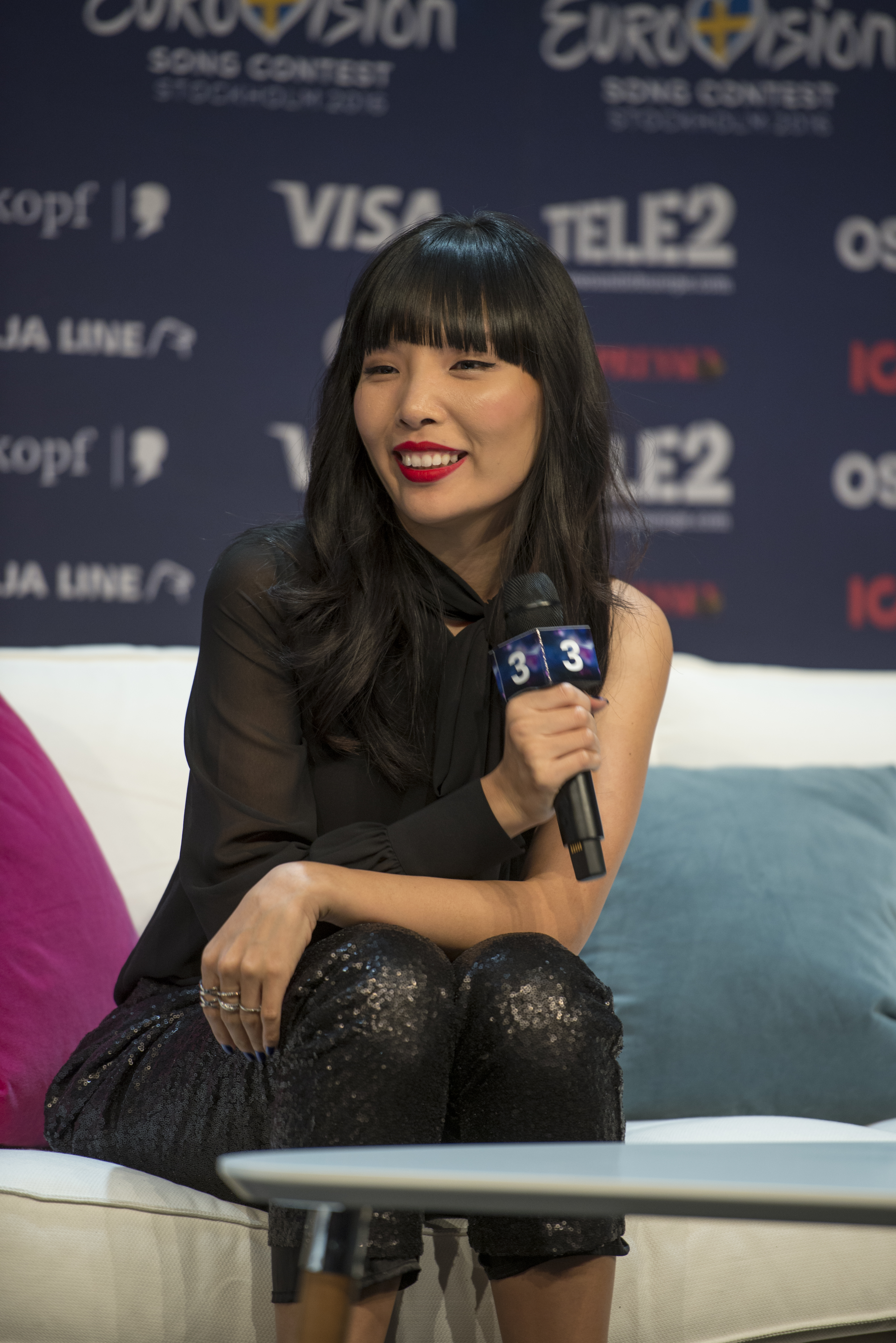 Dami Im at a Meet & Greet during the Eurovision Song Contest 2016 in Stockholm. (Help translate this text)